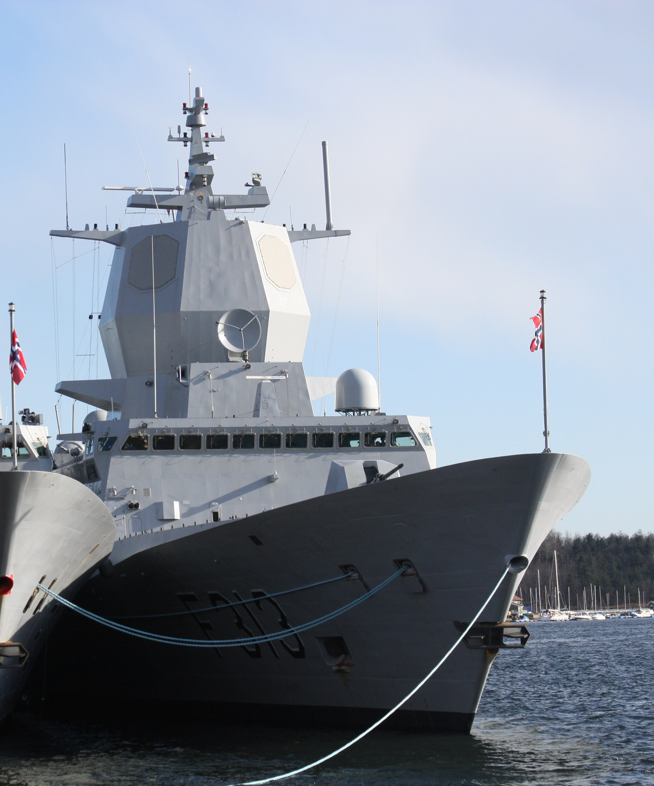 KNM "Helge Ingstad", a Norwegian frigate of the Fridtjof Nansen class. Oslo.